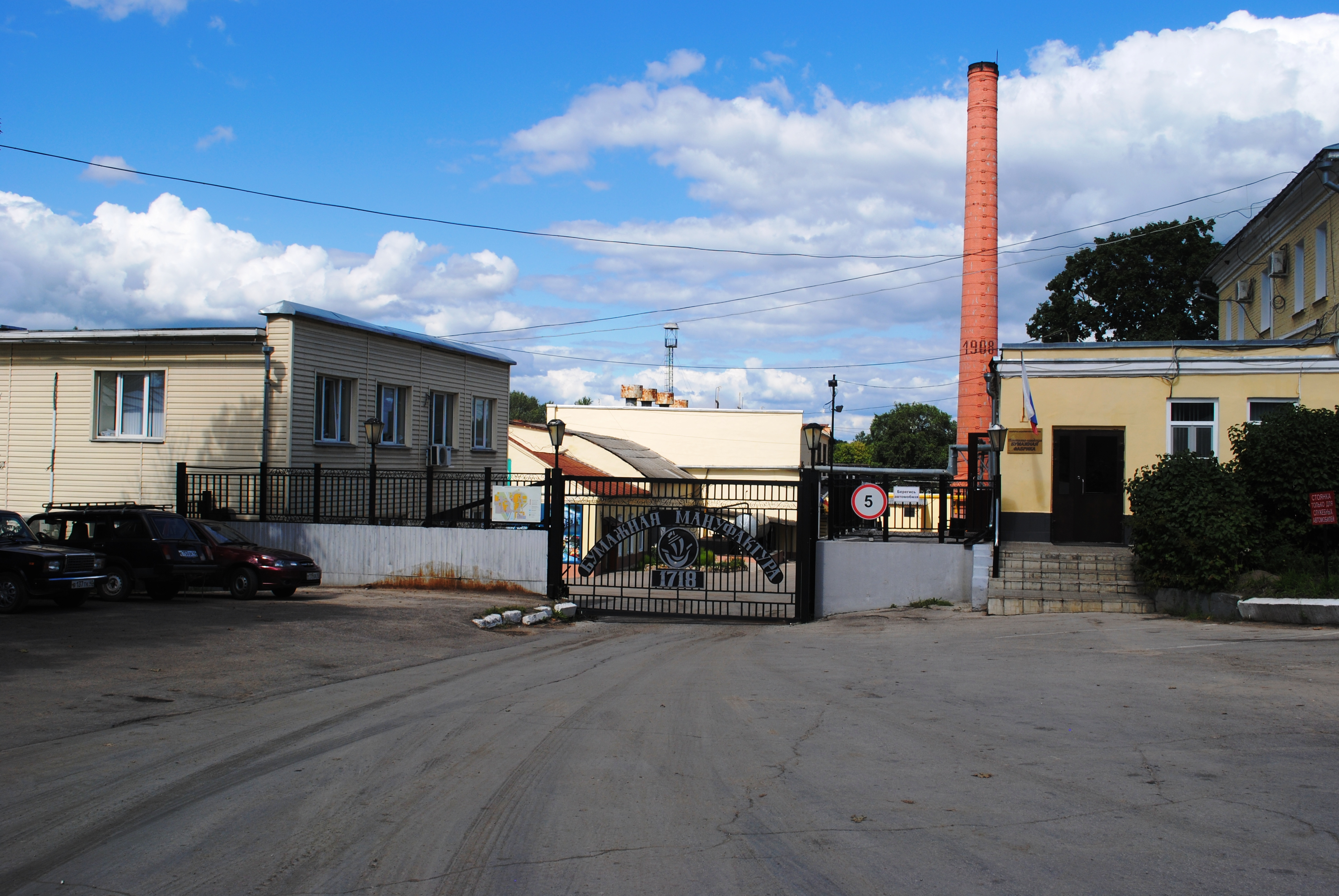 Polotnyany zavod